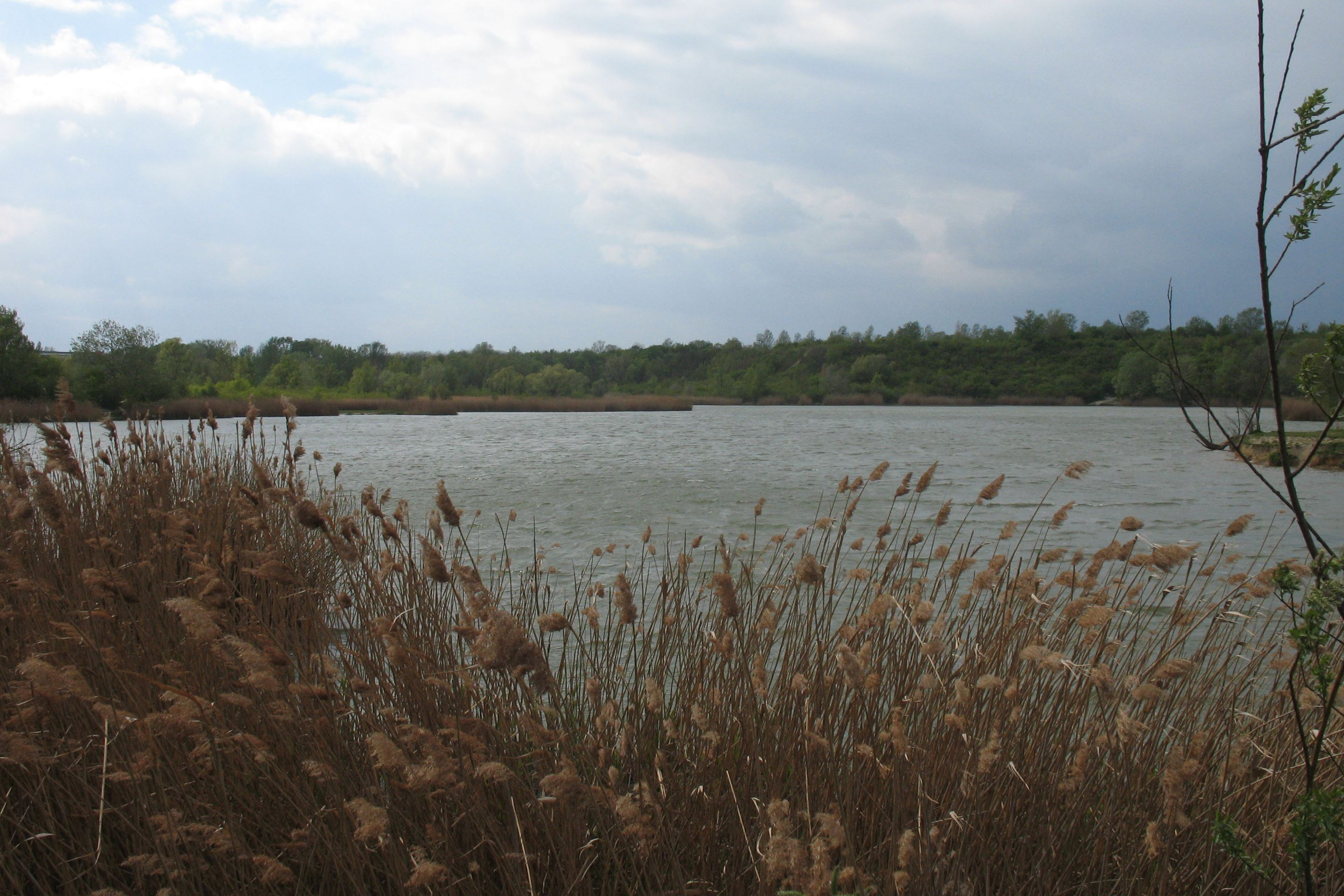 Wienerberg pond in Vienna-Favoriten, Austria